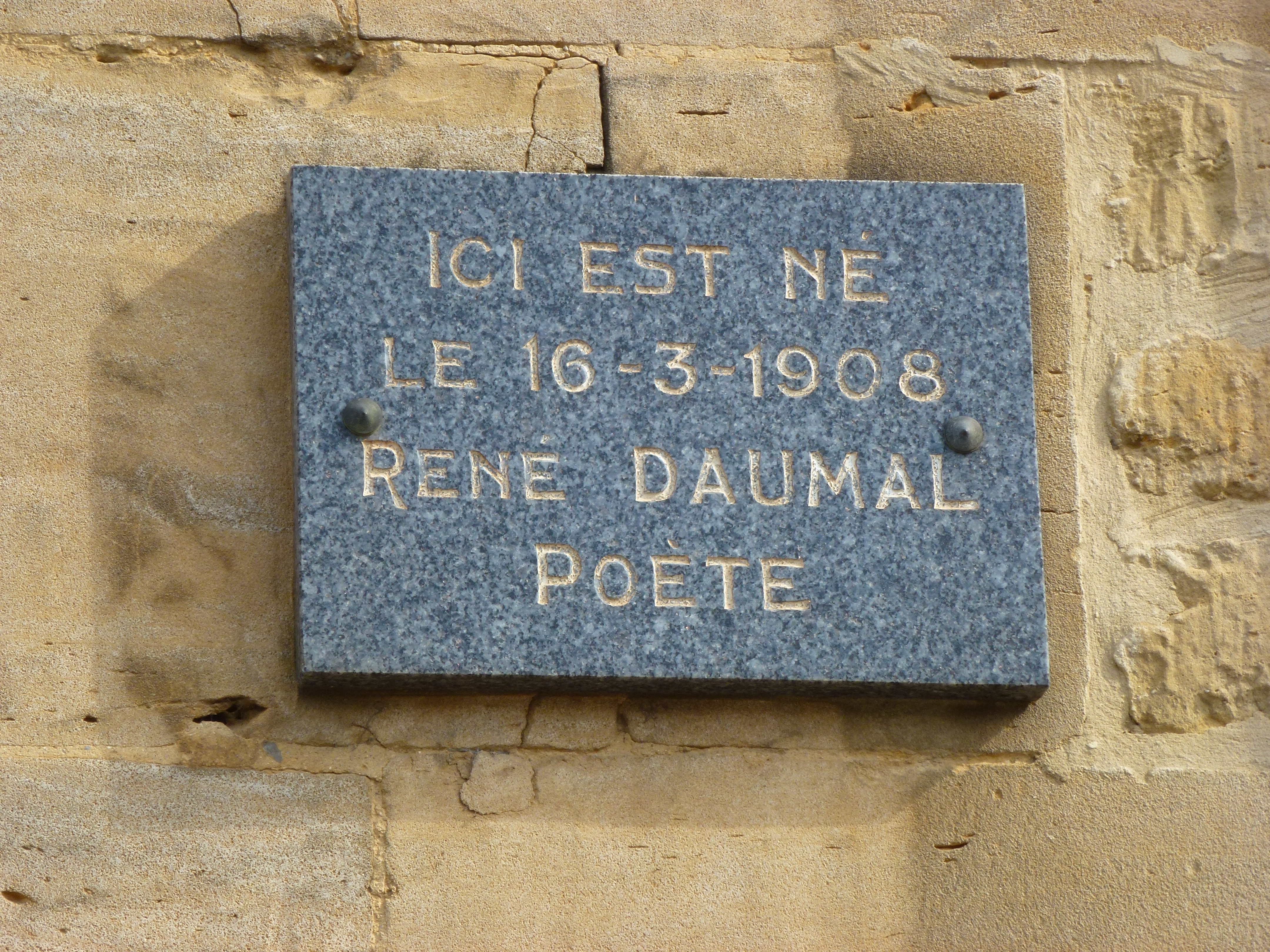 Boulzicourt (Ardennes) plaque maison natale René Daumal